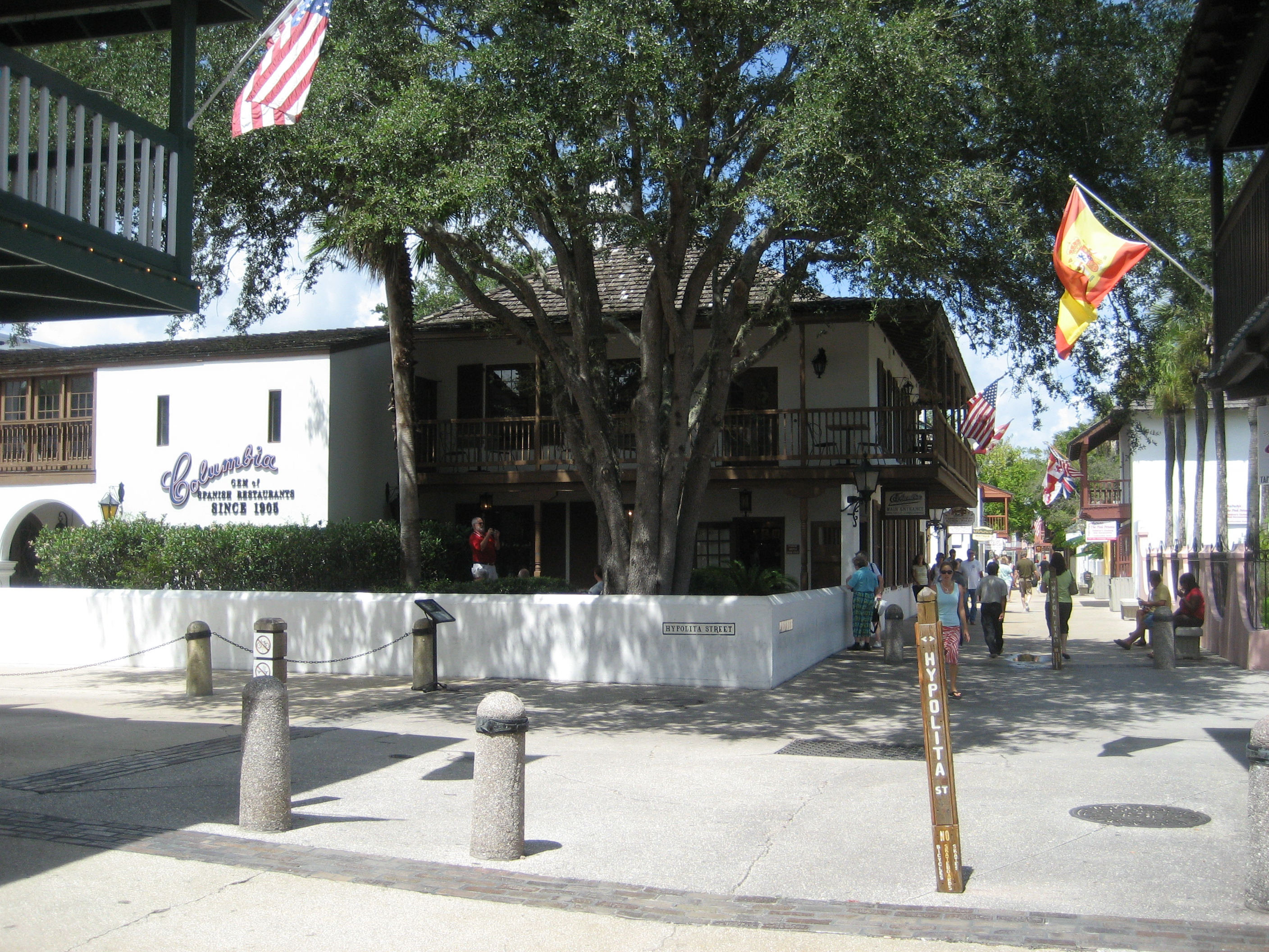 St. Augustine, Florida. Cuban restaurant in old colonial historic district.